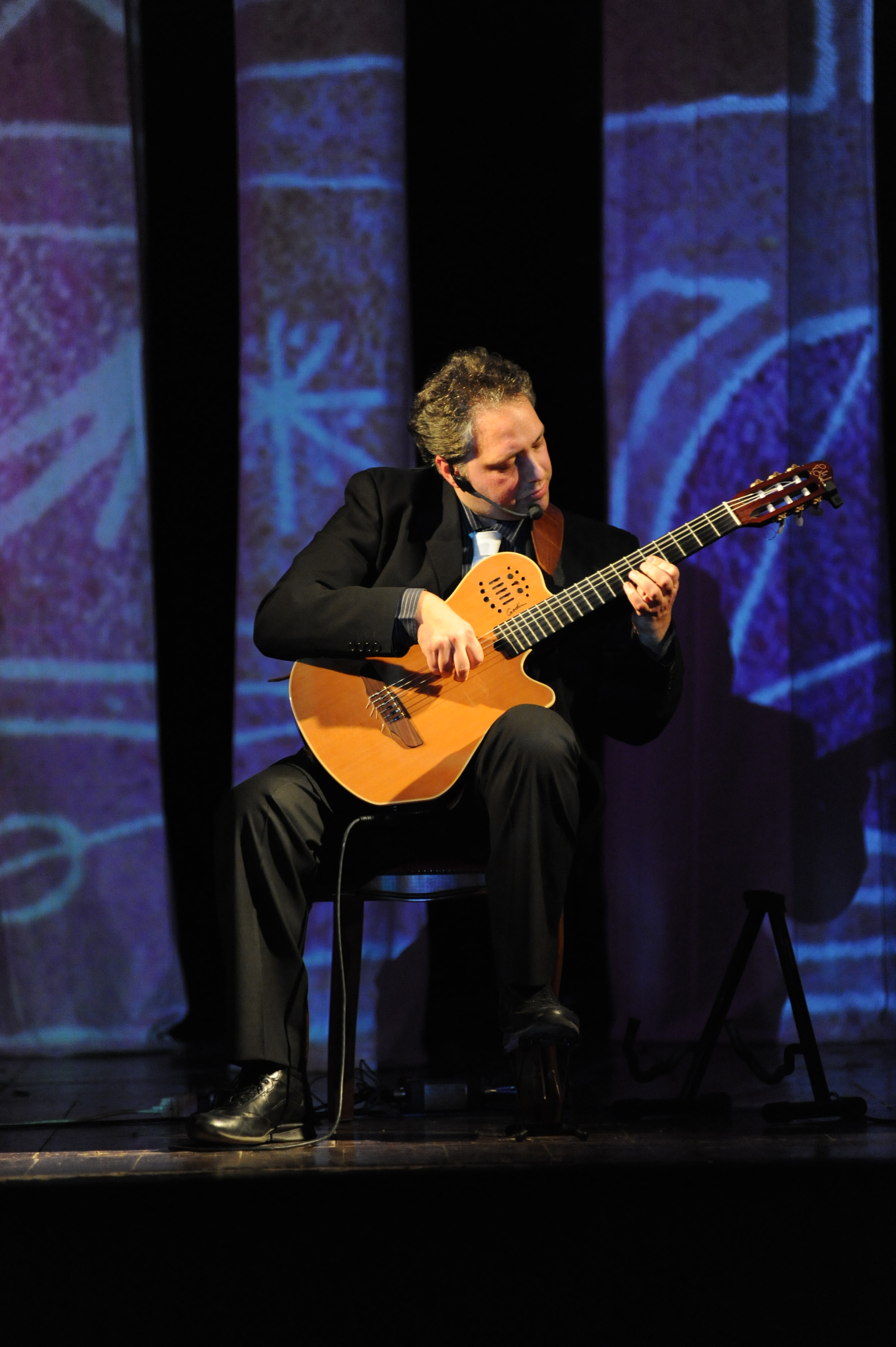 Francesco Buzzurro guitarist in concert